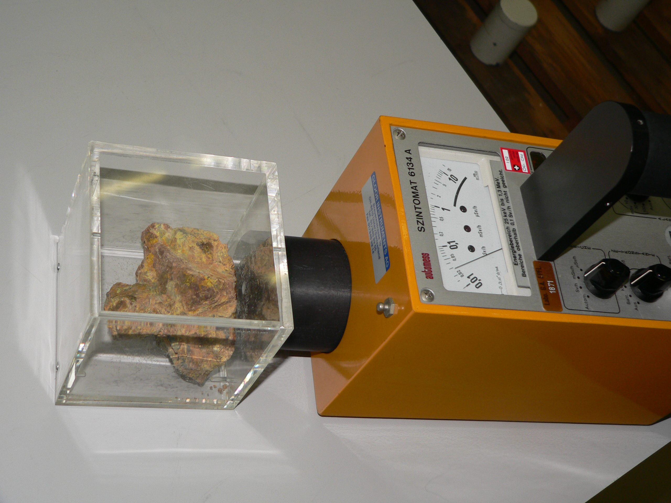 Nuclear installations at the EPFL CROCUS Reactor; CAROUSEL experiments; miscalenous experiments and manipulations; detectors and instruments. Scintillation detector and measurement of a radioactive source (uranium-rich mineral) Wholehearted thanks to René Frueh, chief of operations of CROCUS, for devoting a whole hours to open doors of this universe and explain technical details.